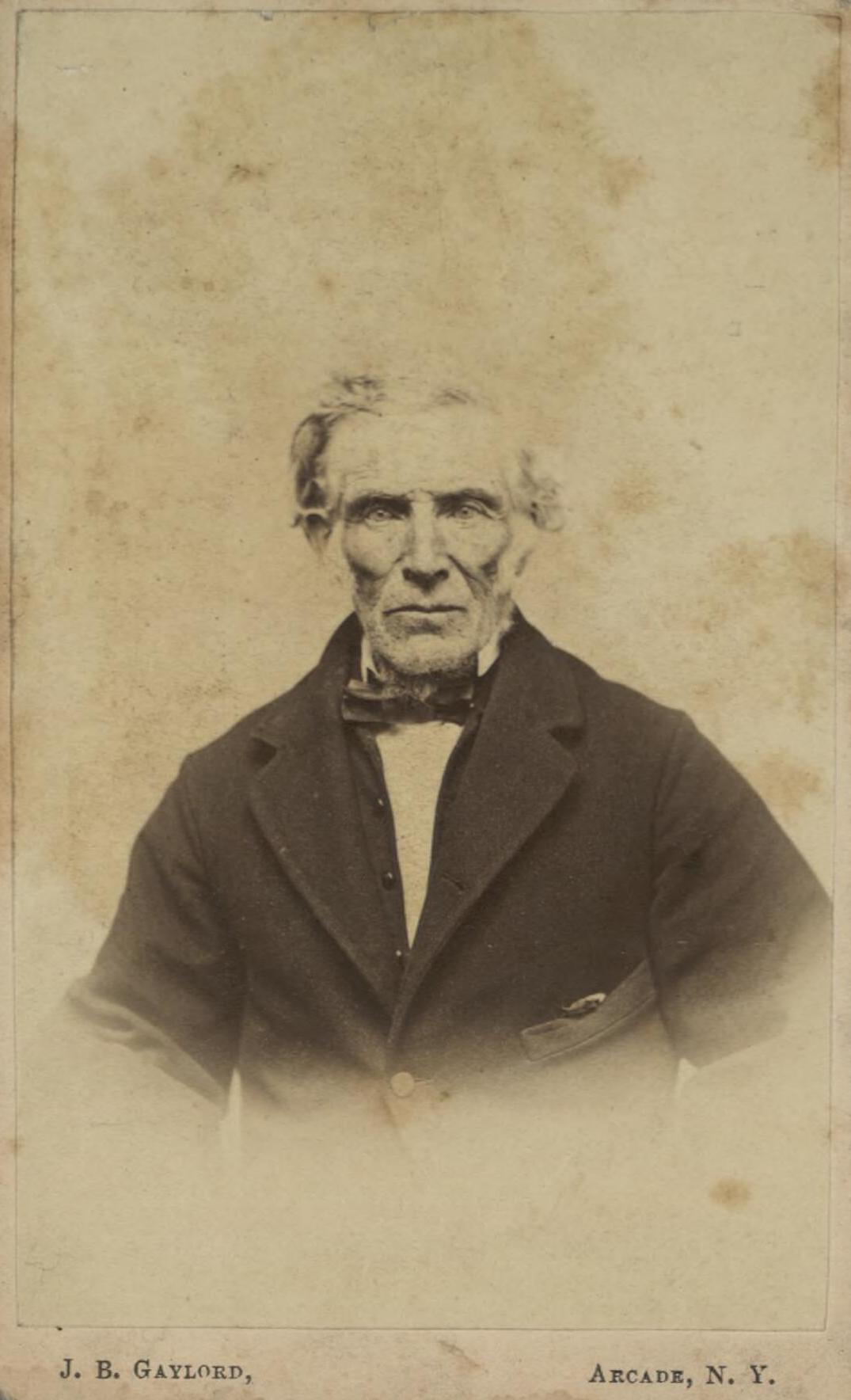 A portrait from the Welsh Portrait Collection at the National Library of Wales. Depicted person: David Charles – British minister (1812–1878)